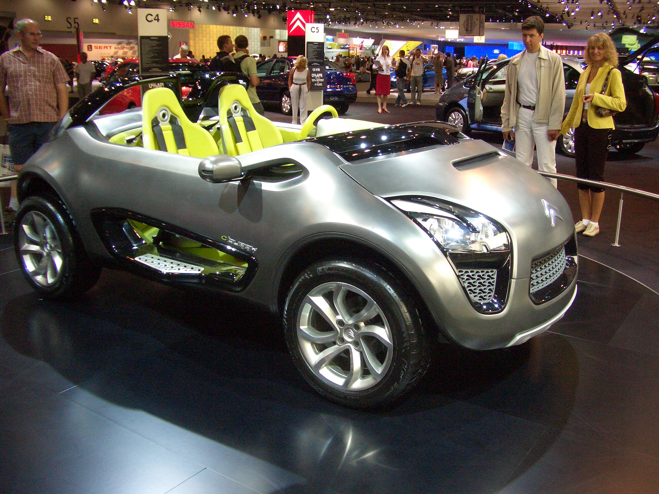 Taken by myself at the London Motorshow 2006.